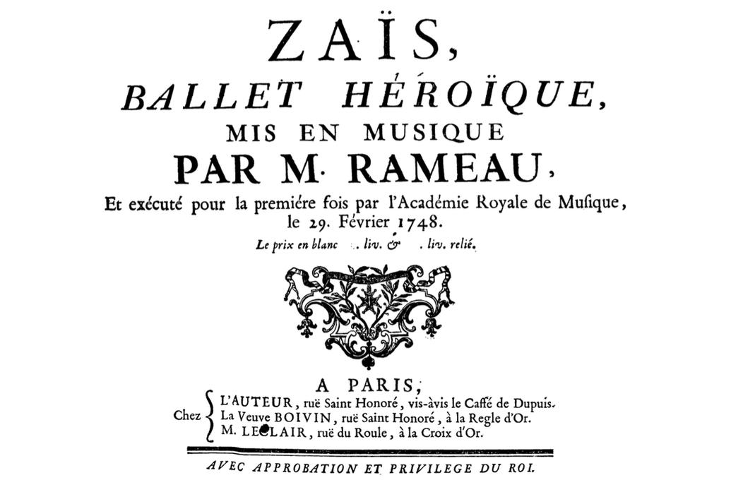 Zaïs, title page, opera by J. P. Rameau